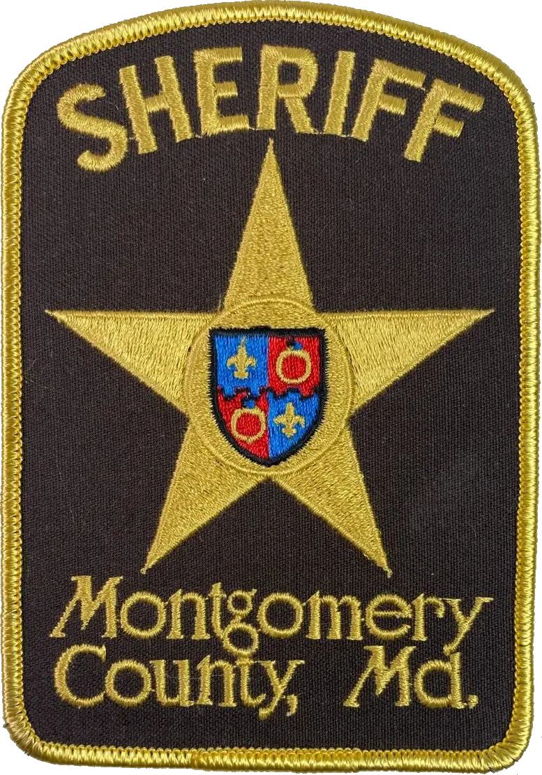 Patch of the Montgomery County Sheriff's Office (former)